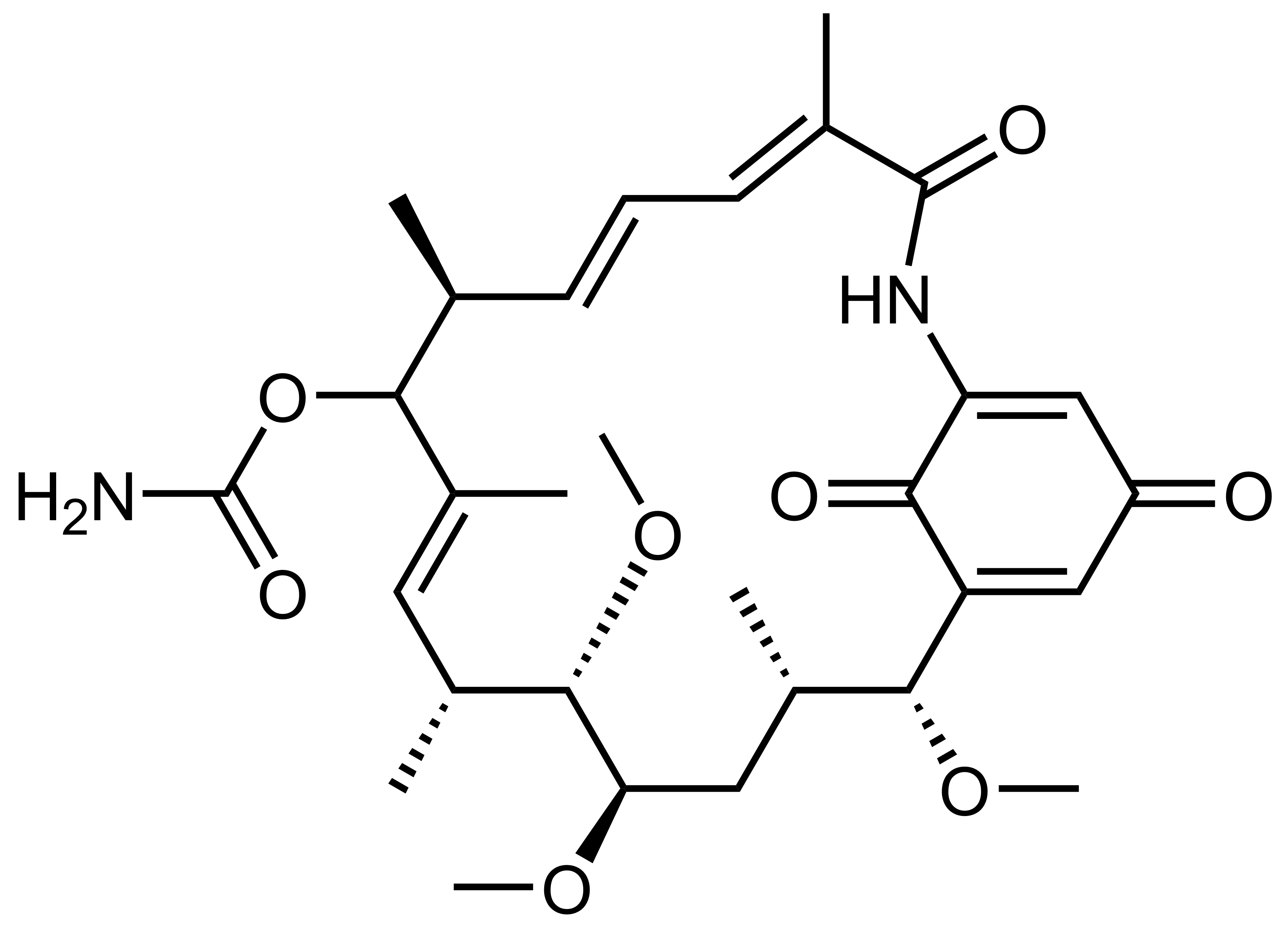 Macbecin I molecule